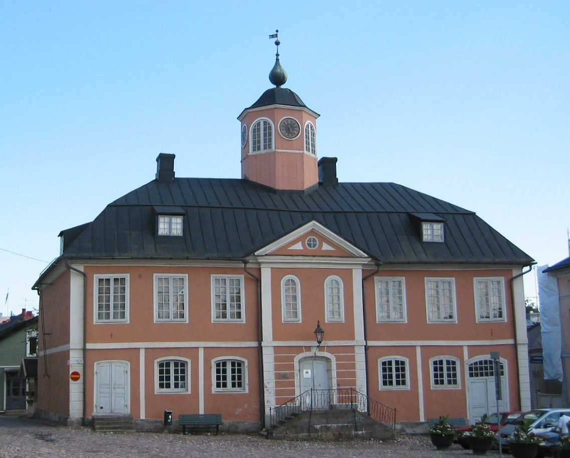 Old Townhall in Porvoo